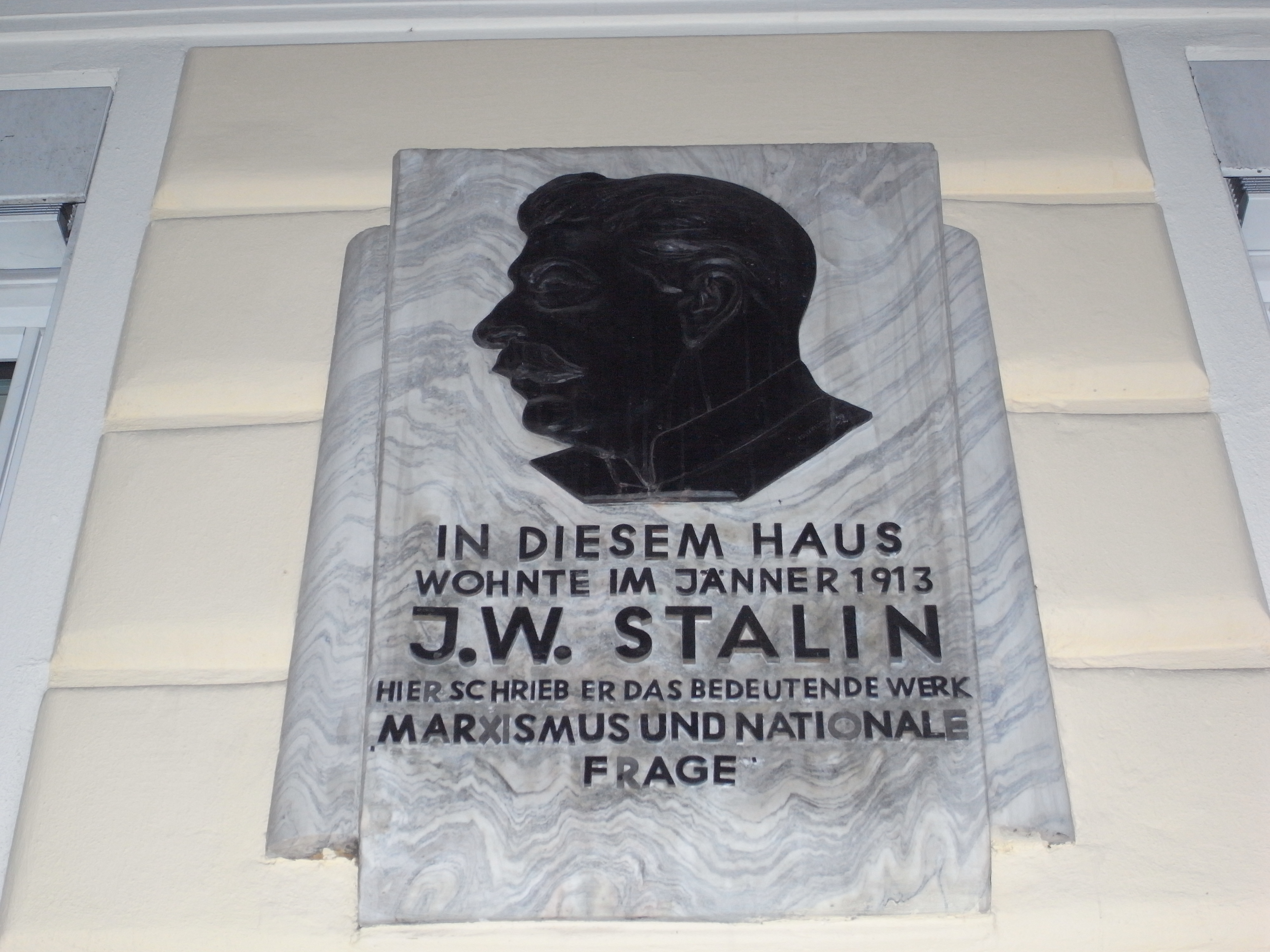 Memorial tablet to Joseph Stalin in Vienna. Created by the municipal authorities of the city of Vienna in 1949 to commemorate the 70th anniversary of Joseph Stalin.